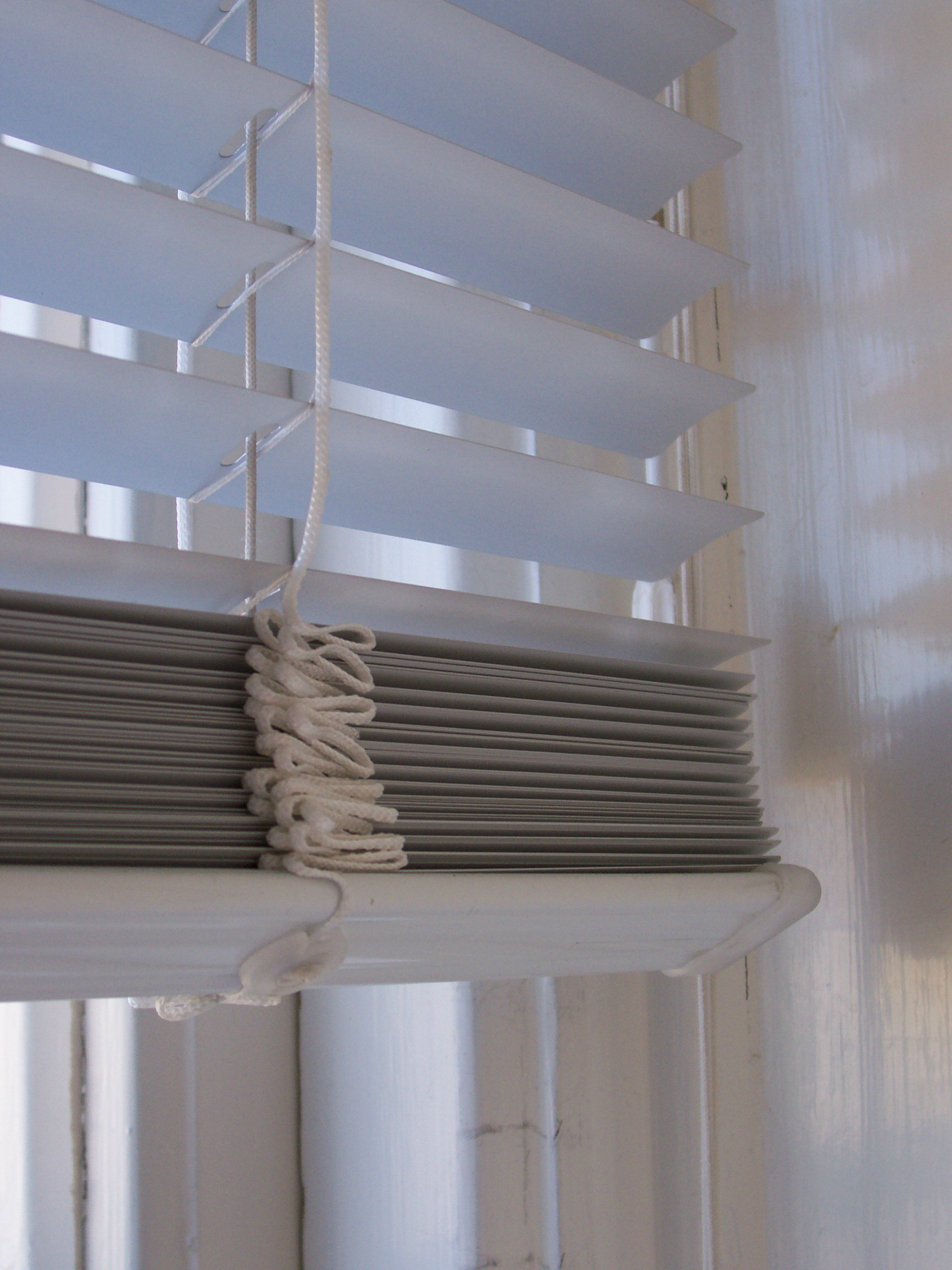 Venetian blind, detail